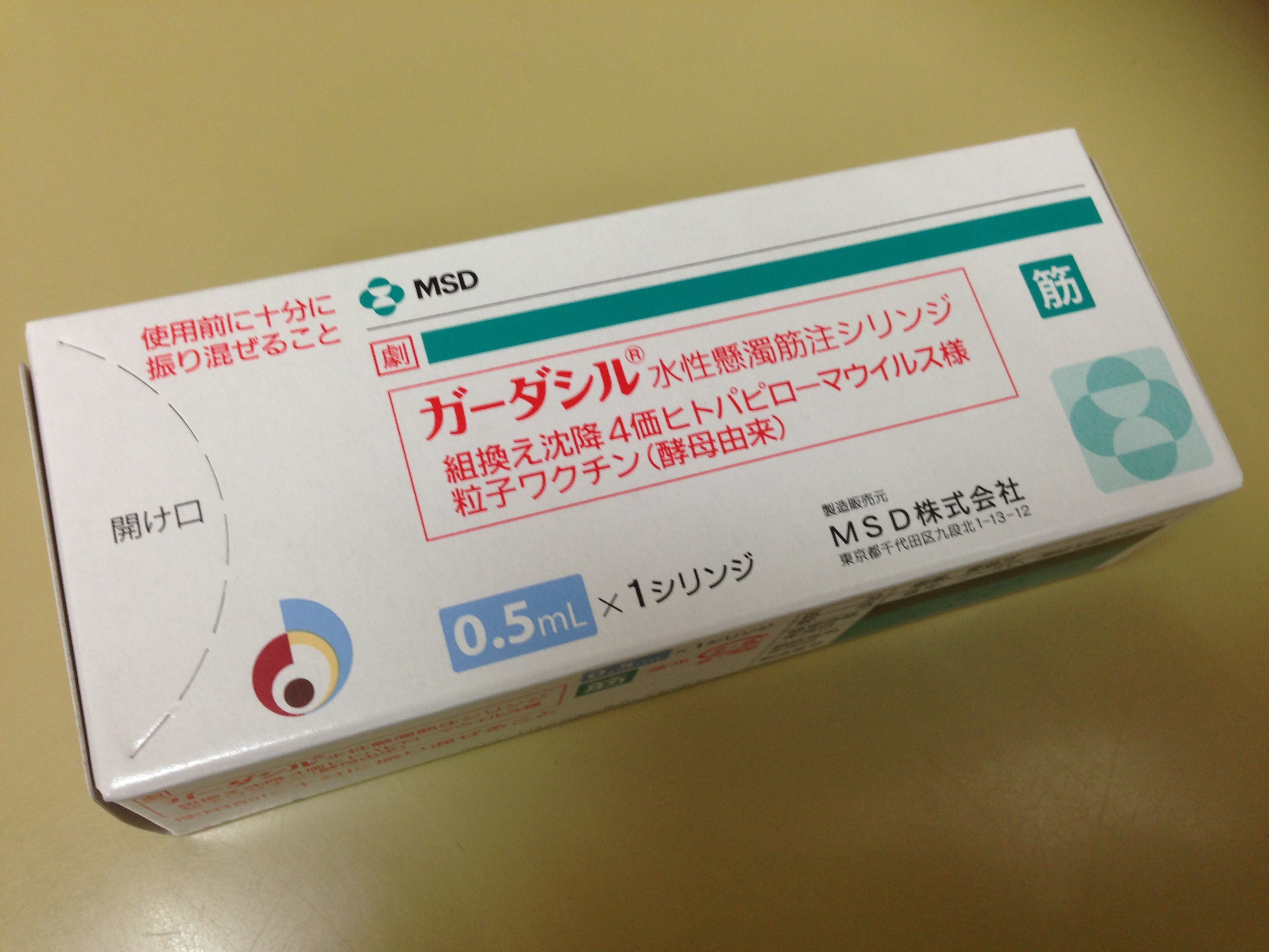 HPV-vaccine " Gardasil" 2016 JAPAN